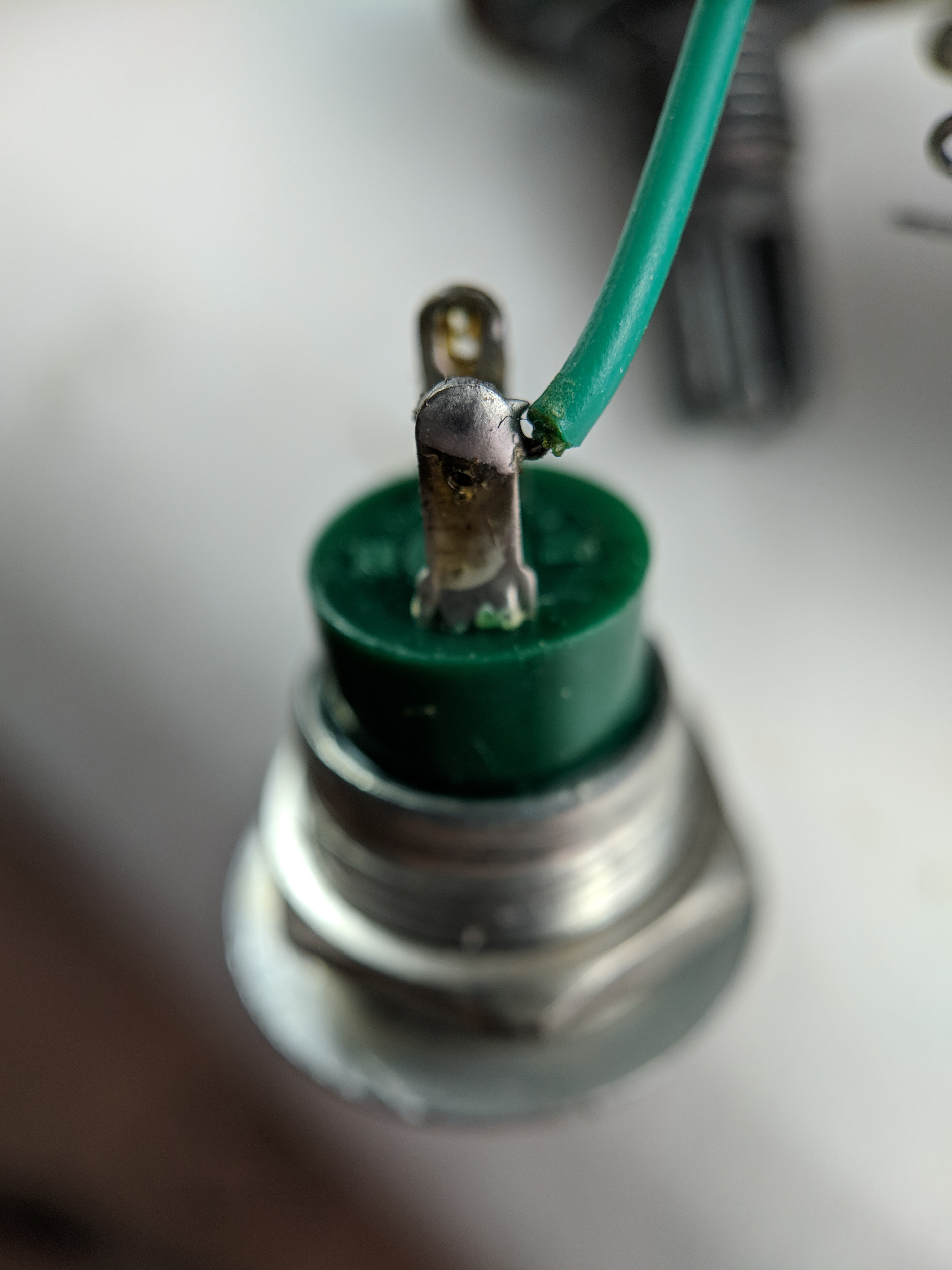 A green cable soldered to a switch.